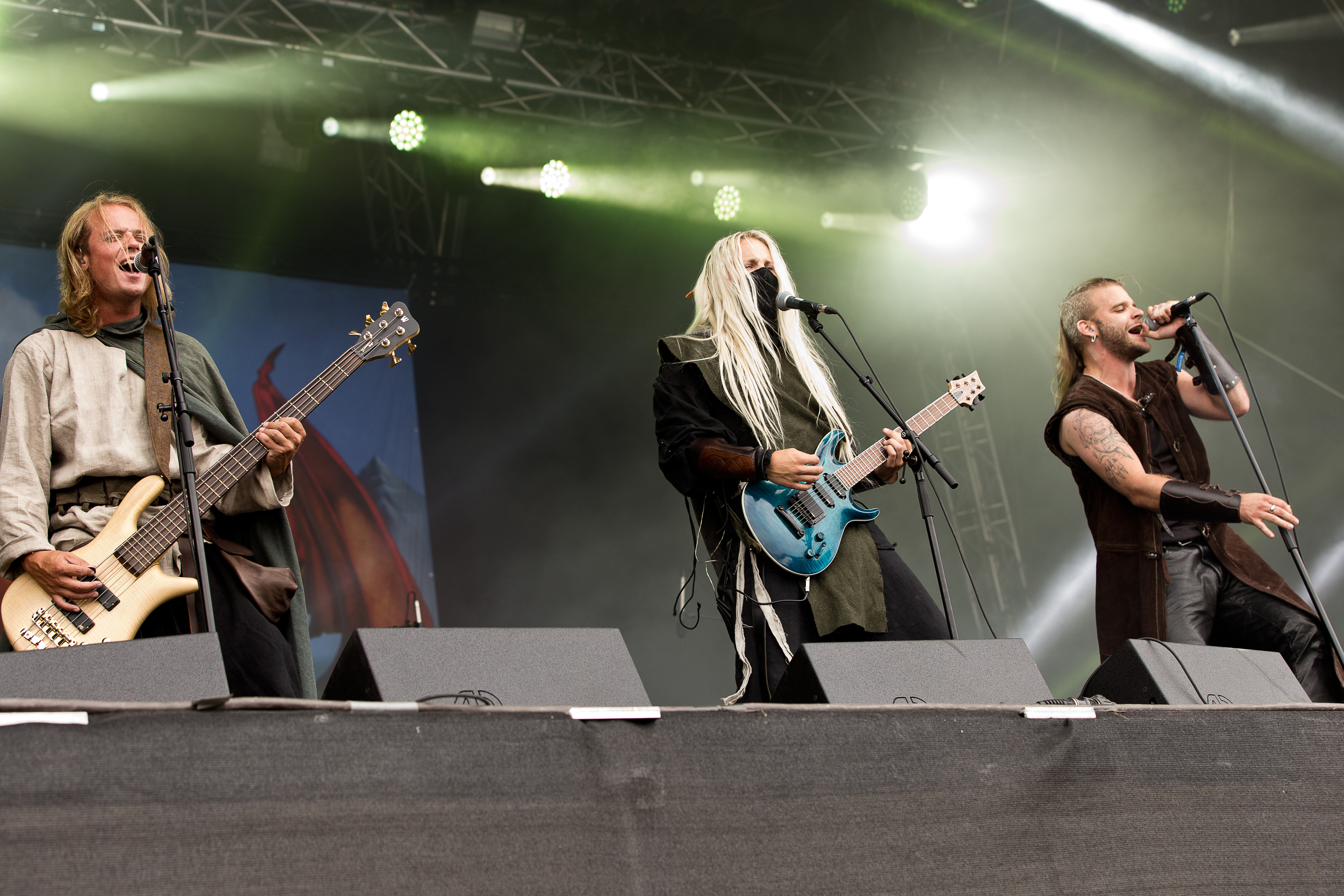 The Swedish power metal band Twilight Force at the Rockharz Open Air 2016 in Ballenstedt/Germany.